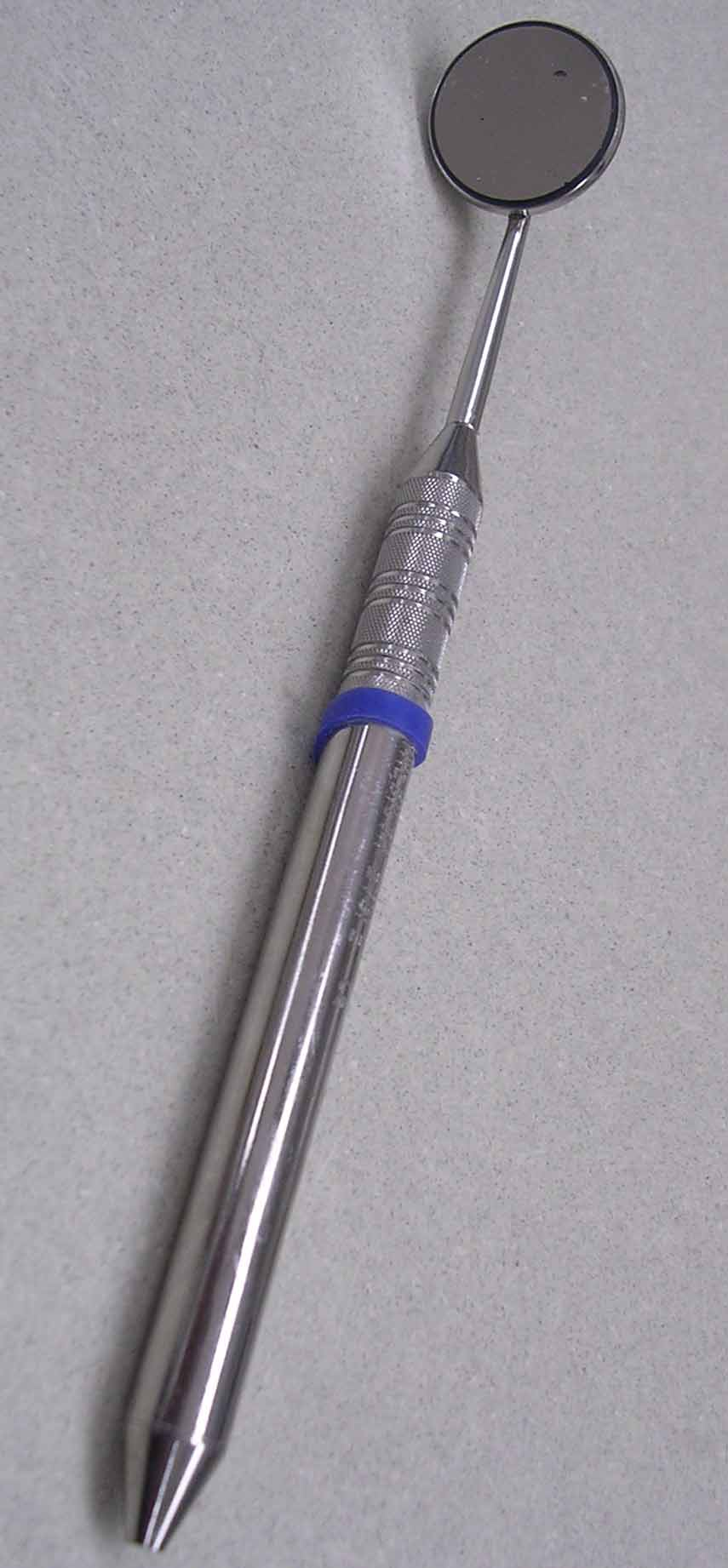 A dental mirror (mouth mirror) used in dentistry. Taken on July 24, 2004 at the University of Tennessee Health Science Center: College of Dentistry in Memphis. Source: Photo taken by Dozenist